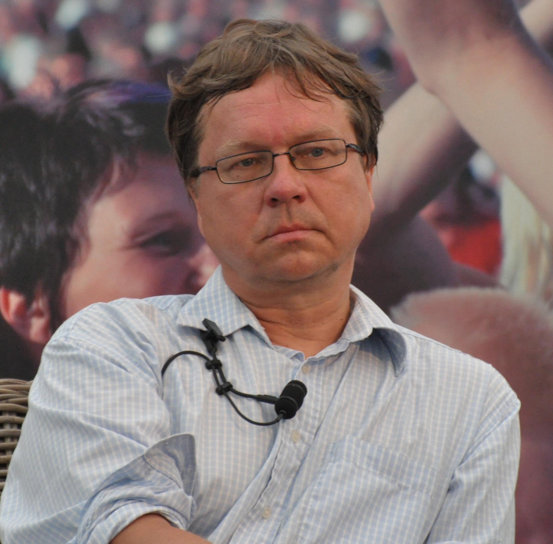 Finnish psychologist and politician Pekka Sauri at SuomiAreena 2010 in Pori.